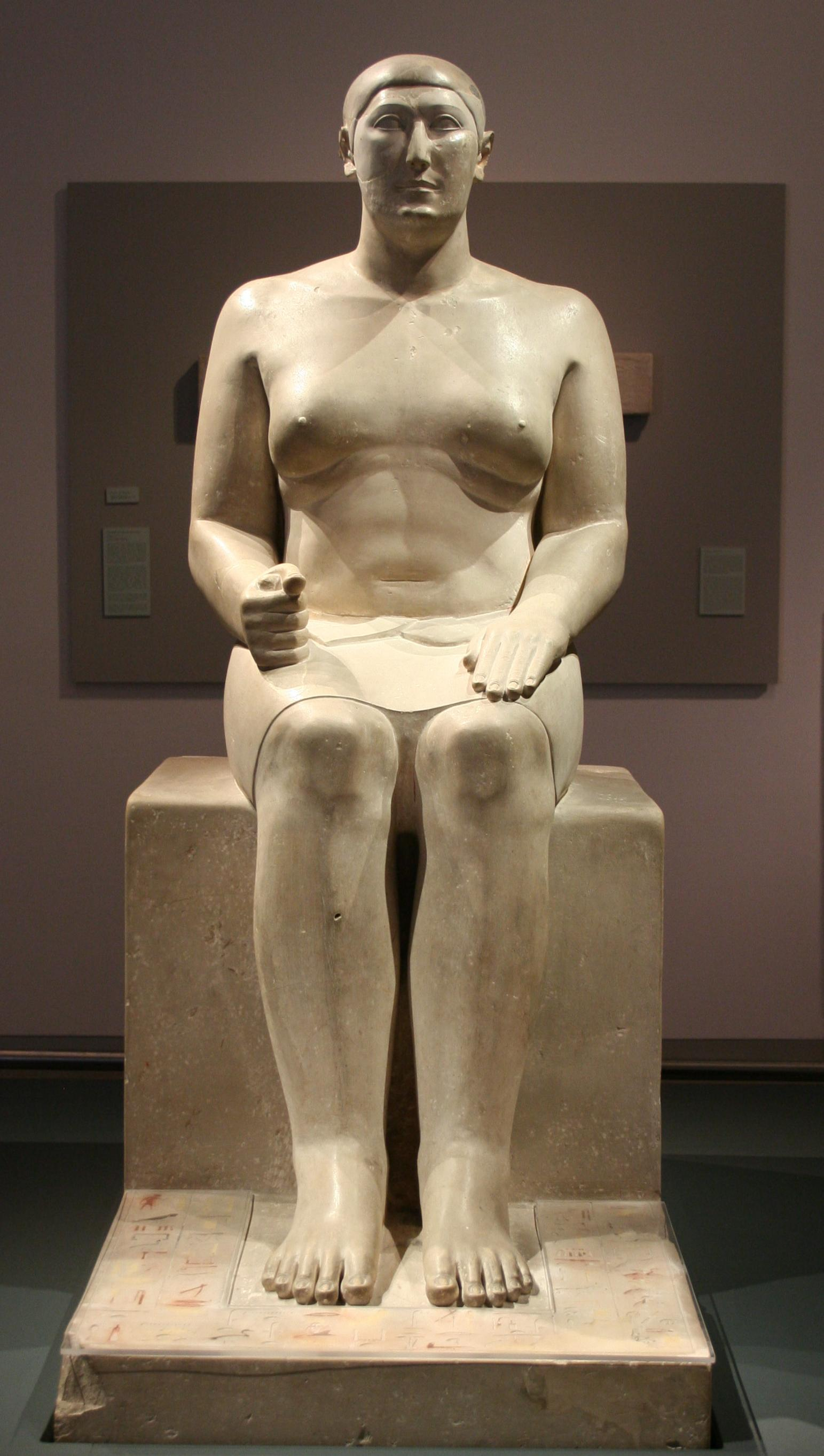 Statue of Hemiunu from his tomb at Giza. Limestone. H 155.5 cm (IN 1962) Roemer- und Pelizaeusmuseum, HildesheimThe hieroglyphs at the feet of Hemiunu, are now protected under a Plexiglass plate: (the photo goes into High-Definition mode). The hieroglyphs are painted in: yellow, brown, black, white(?), and red.